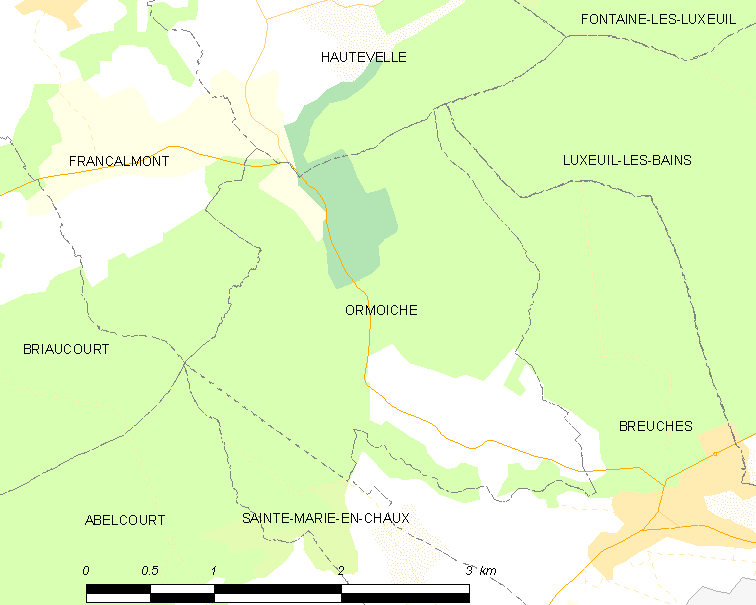 Map of French municipality